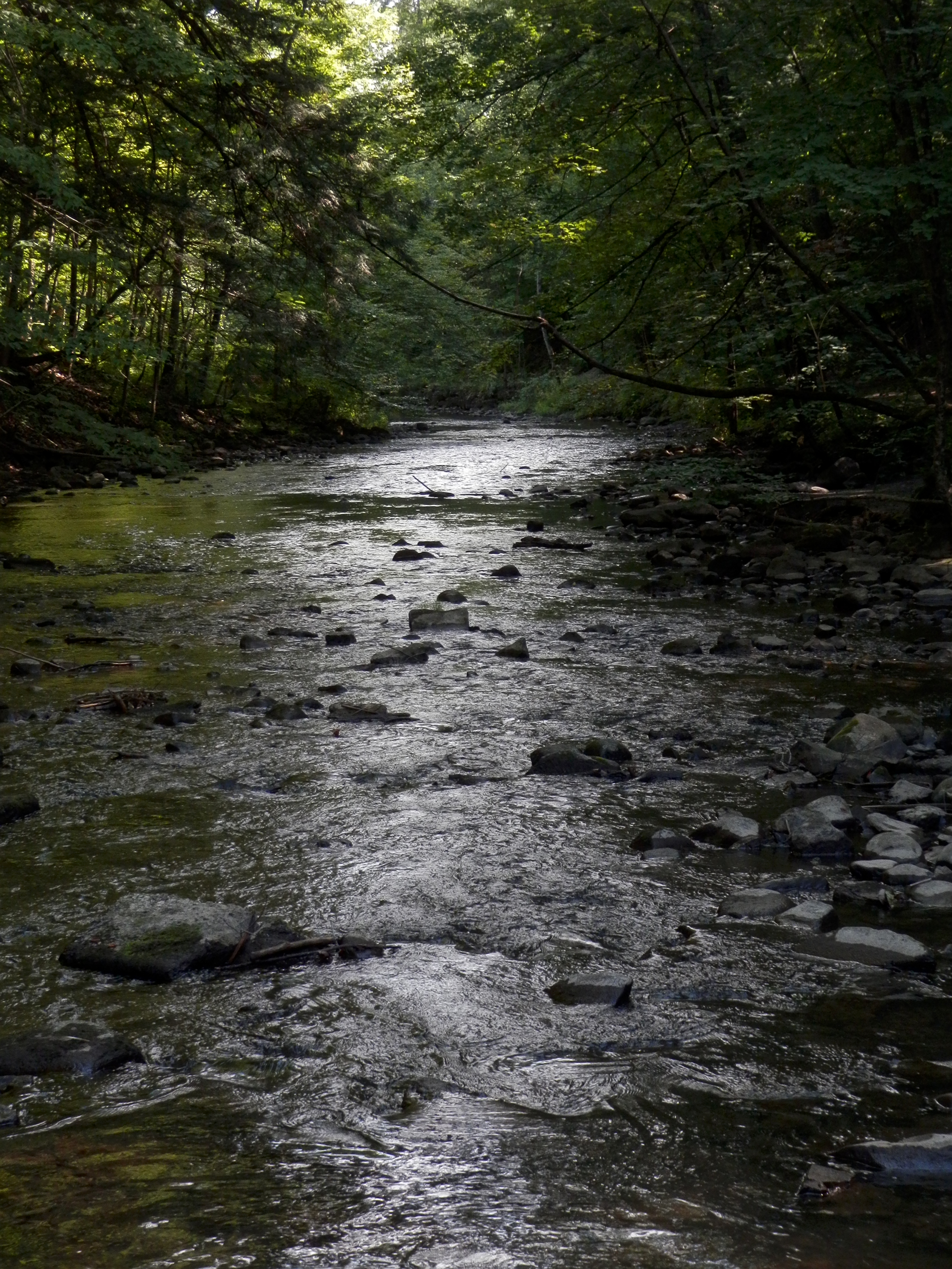 Geyser Brook in Saratoga Spa State Park, Saratoga Springs, New York, United States of America.